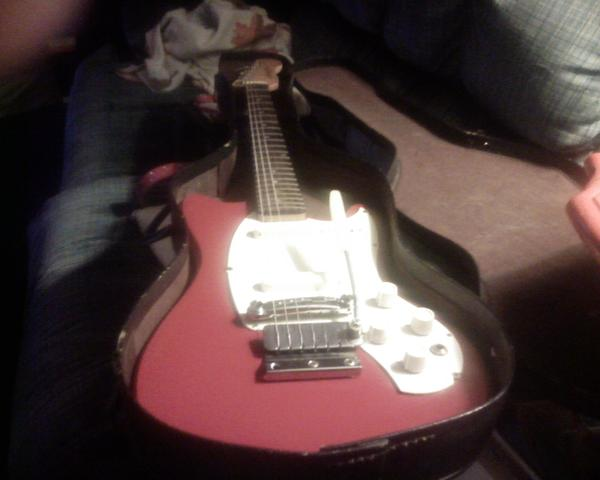 Picture of a Gibson Kalamazoo electric guitar. Designed very similarly to the Fender Mustang of the same era.